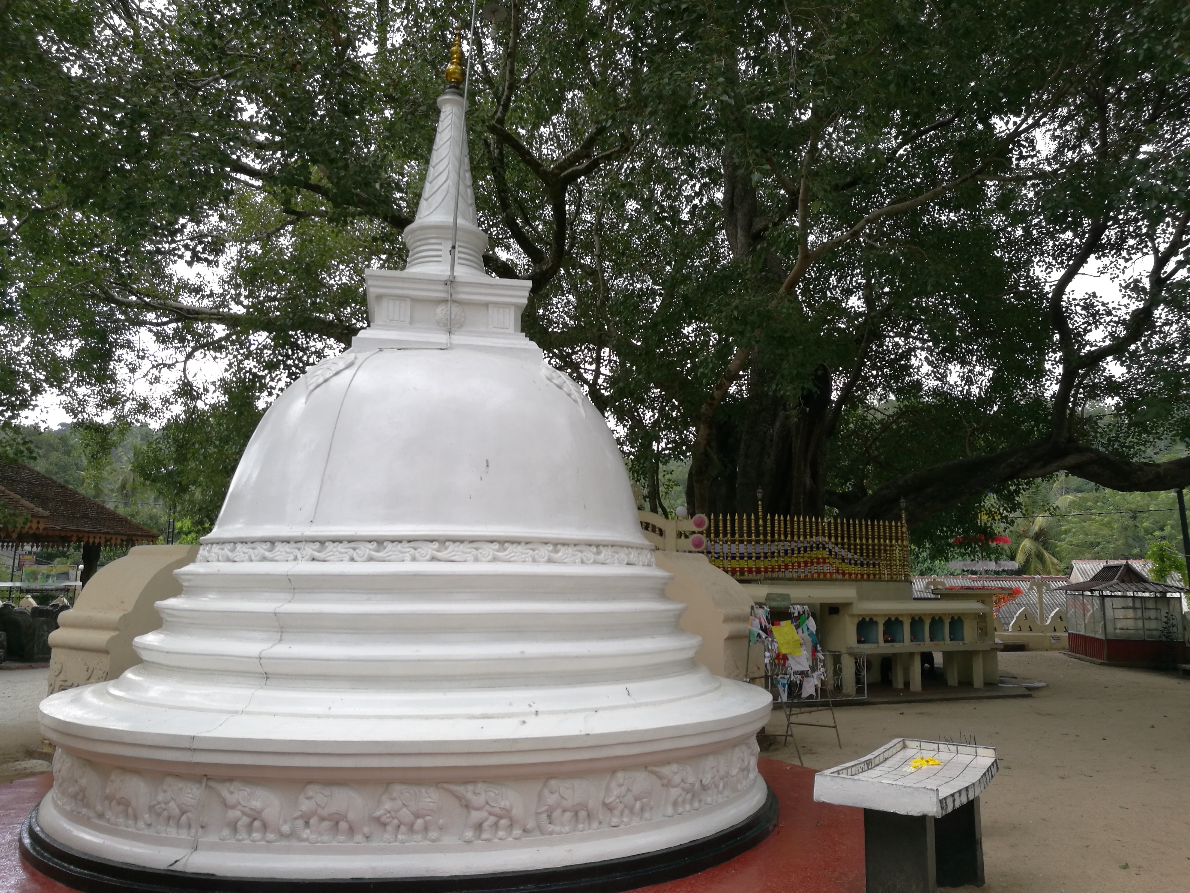 Pagoda of Divurum Bodiya Temple